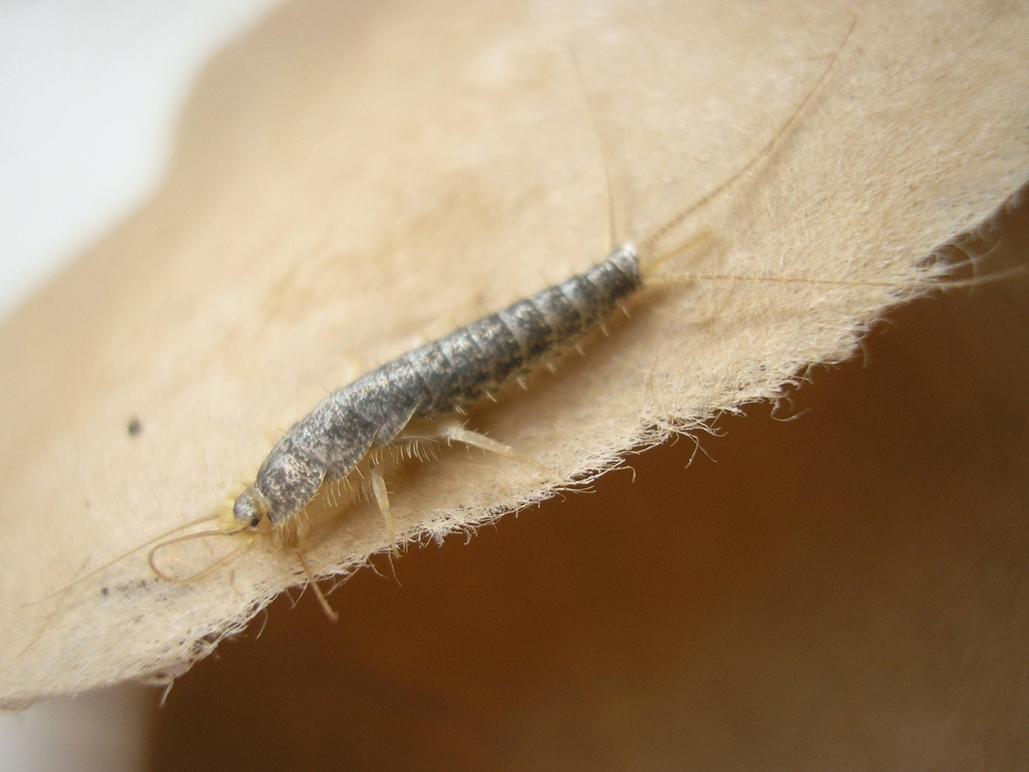 Grey silverfish Location: Almelo, NL Keywords: Zygentoma, Thysanura